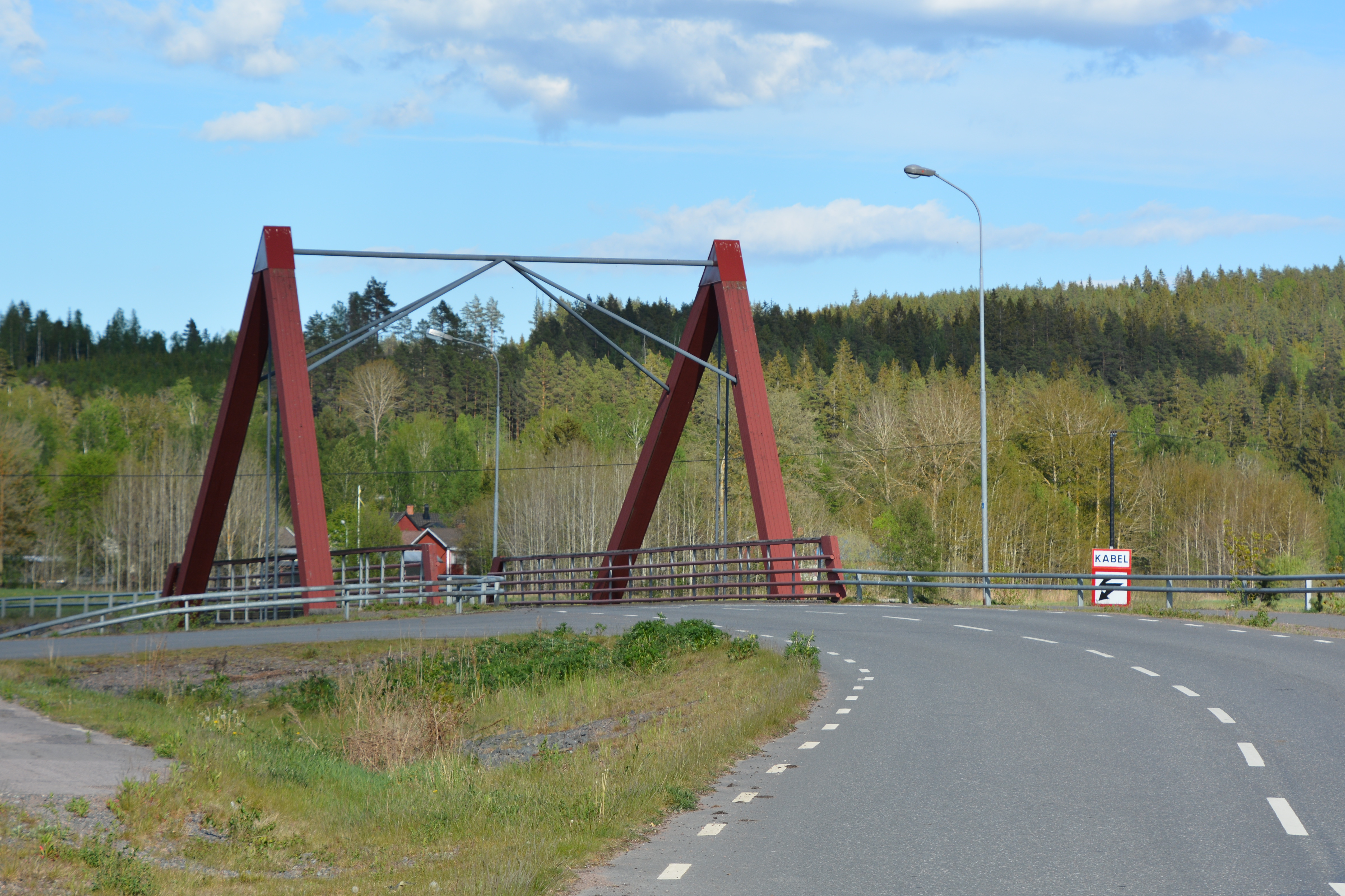 Road bridge in Virserum, Sweden Vägbro i Virserum över Virserumsån